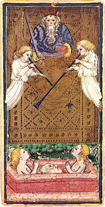 The Judgment card from the Visconti-Sforza Tarot deck.